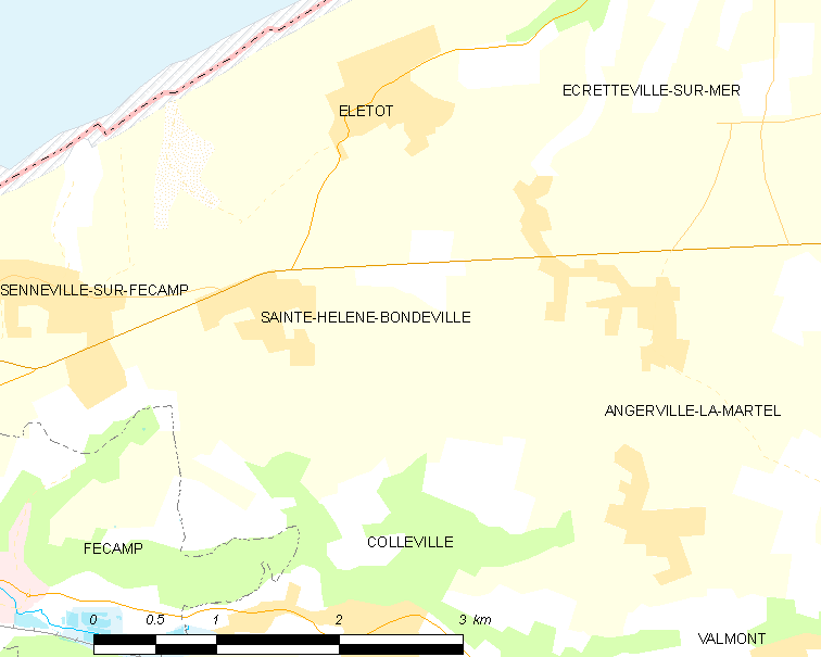 Map of French municipality Sainte-Hélène-Bondeville